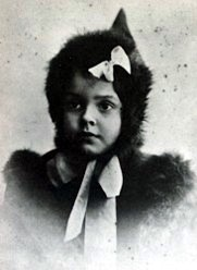 Louise Jeanne ("Non") Mac Leod (1898-1919) daughter of Mata Hari